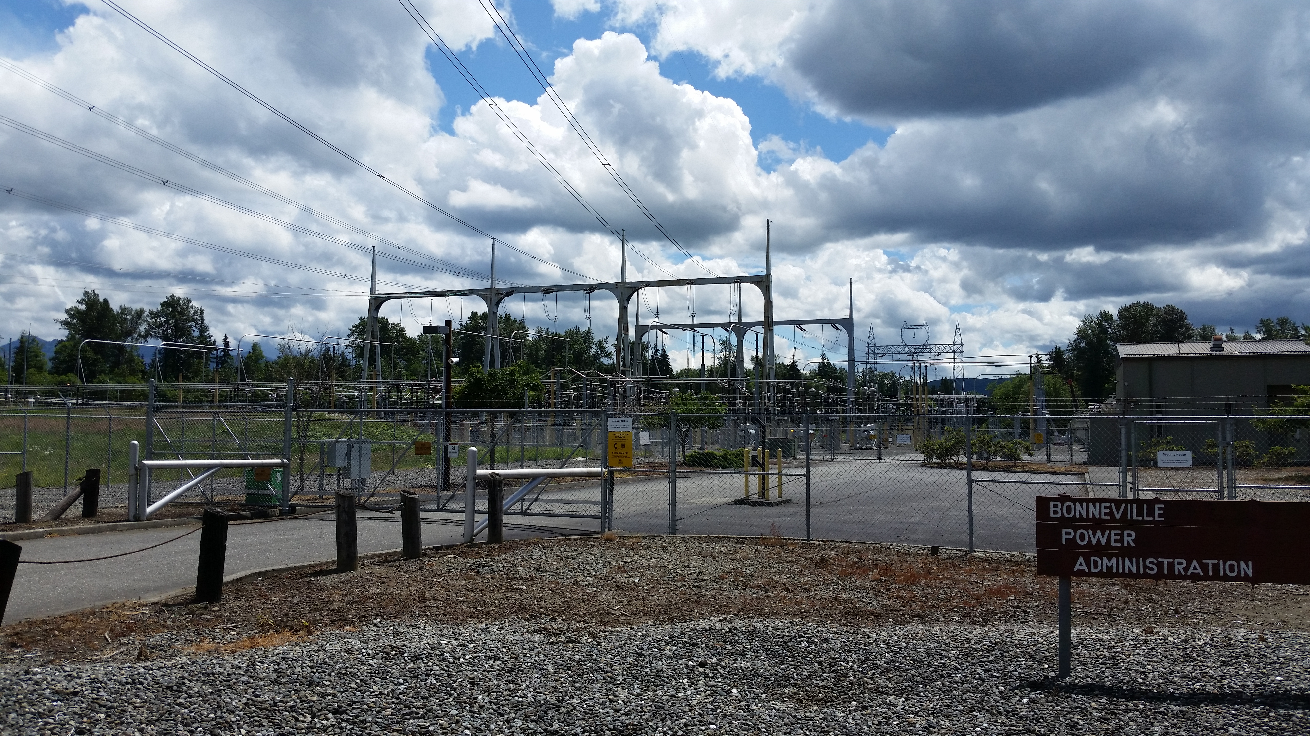 500 kV substation in Monroe.